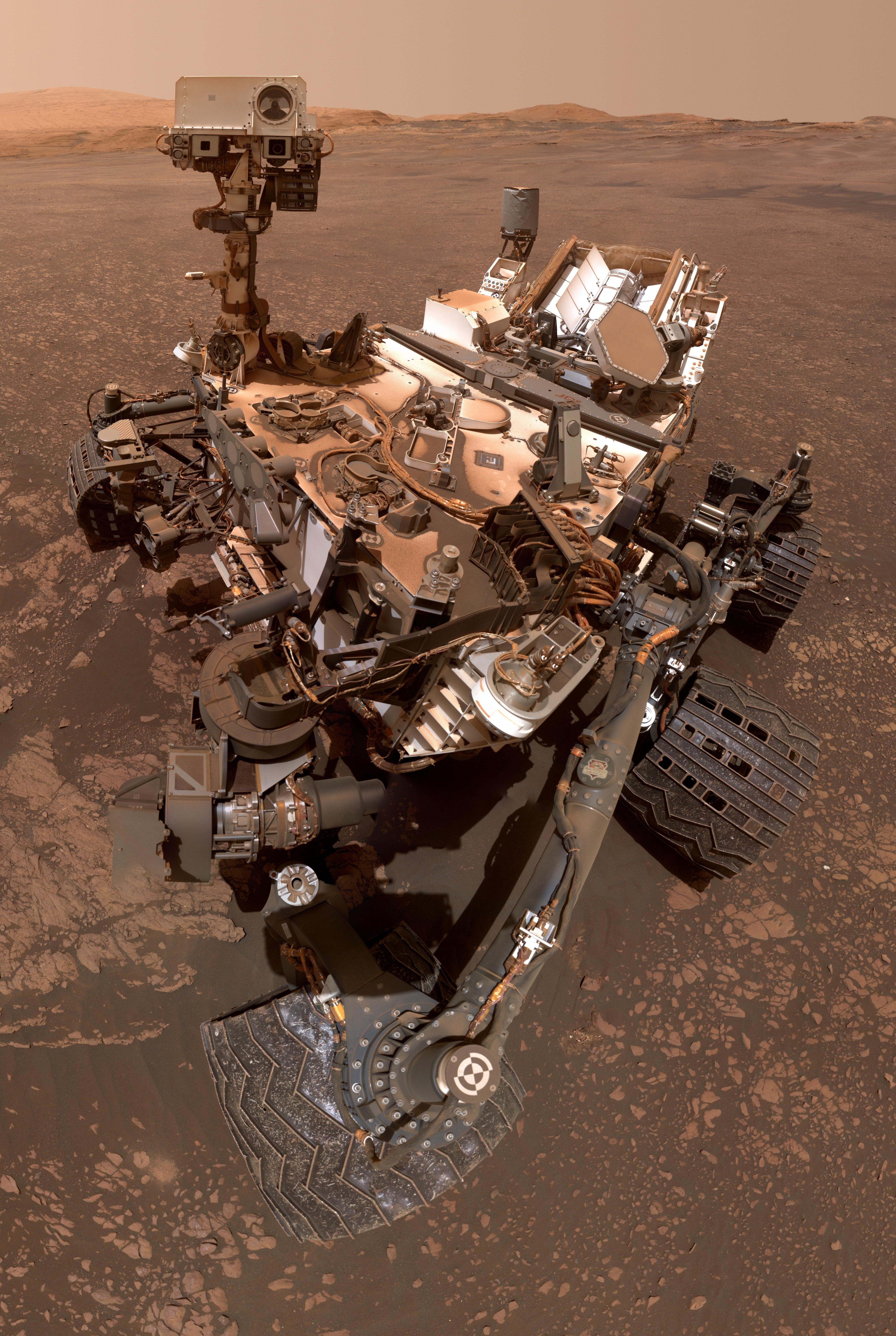 PIA23240: Curiosity's Selfie at Aberlady and Kilmarie - May 12, 2019 NASA's Curiosity Mars rover took this selfie on May 12, 2019 (the 2,405th Martian day, or sol, of the mission). To the lower-left of the rover are its two recent drill holes, at targets called "Aberlady" and "Kilmarie." These are Curiosity's 20th and 21st drill sites. The selfie is composed of 57 individual images taken by the rover's Mars Hand Lens Imager (MAHLI), a camera on the end of the rover's robotic arm. The images are stitched together into a panorama, and the robotic arm is digitally removed. MAHLI was built by Malin Space Science Systems in San Diego. NASA's Jet Propulsion Laboratory, a division of Caltech in Pasadena, manages the Mars Science Laboratory Project for the NASA Science Mission Directorate in Washington. JPL designed and built the project's Curiosity rover. More information about Curiosity is at and